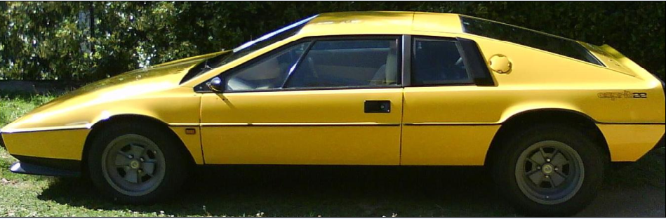 Lotus Esprit S2.2